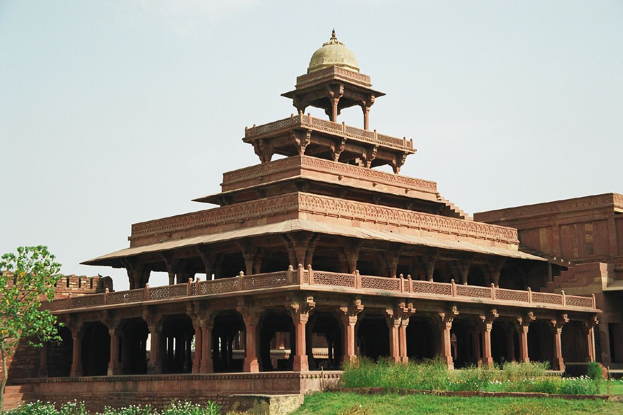 Imperial palace at Fathepur Sikri, near Agra, India, built in 1580